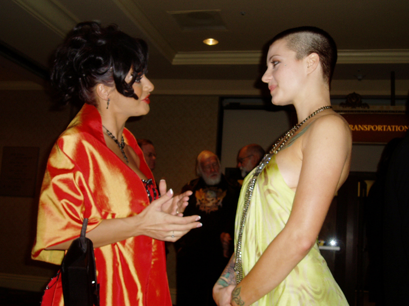 Sandra Romain & Belladonna at the 2007 Adult Entertainment Expo.